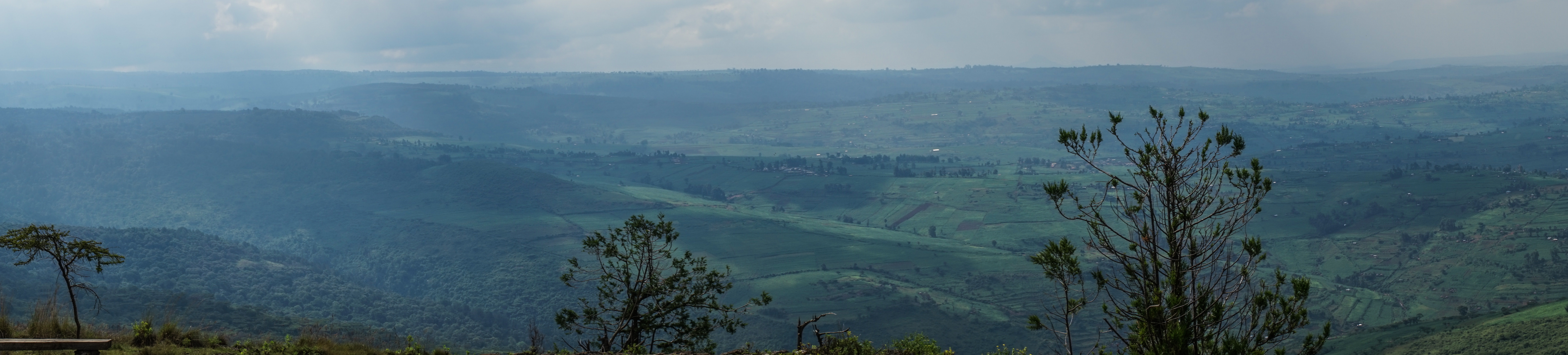 Western Kenya, Saiwa Swamp National Park